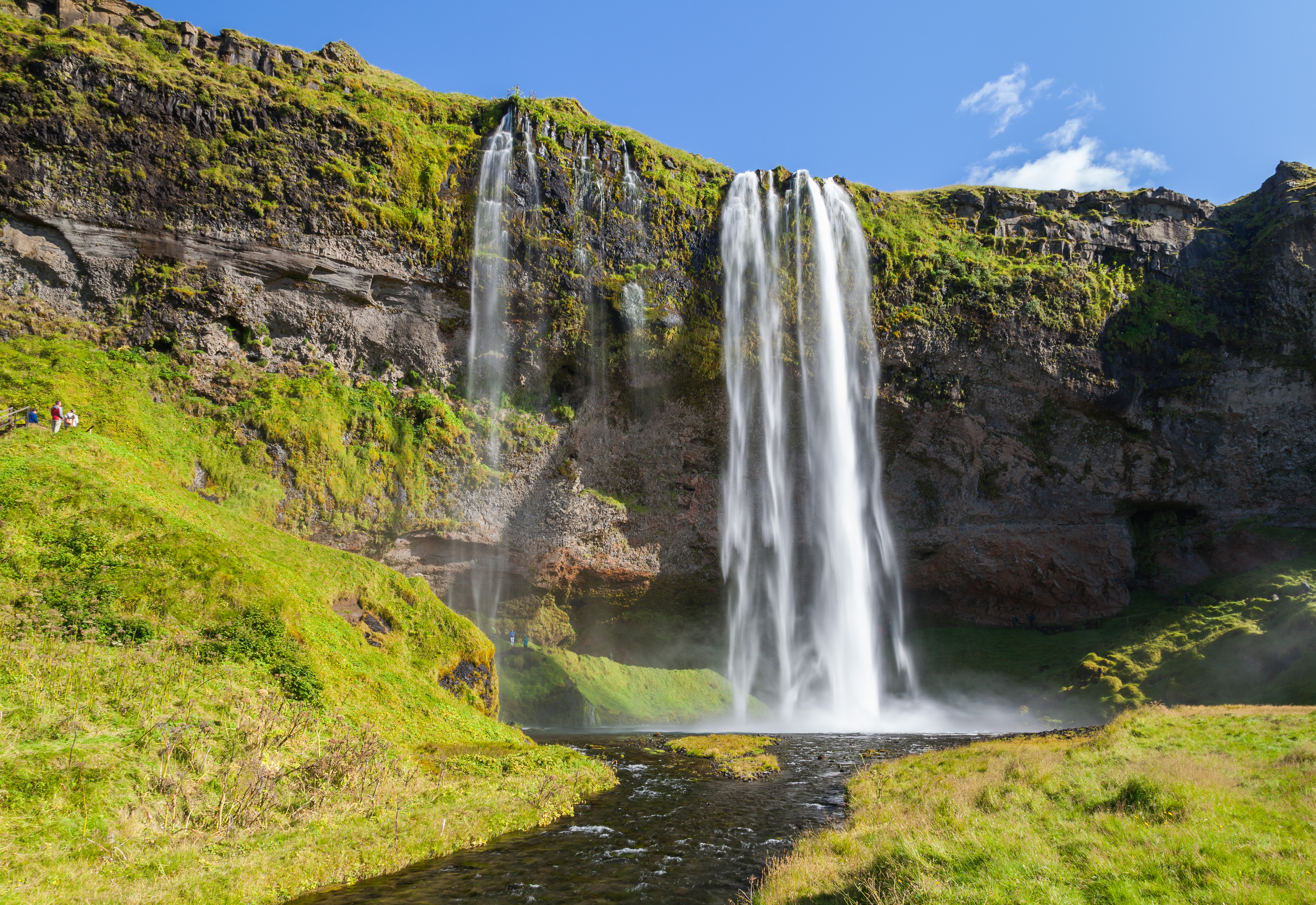 Seljalandsfoss, Suðurland, Iceland